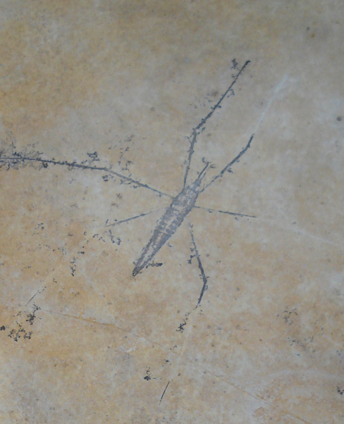 fossil of Chresmoda obscura